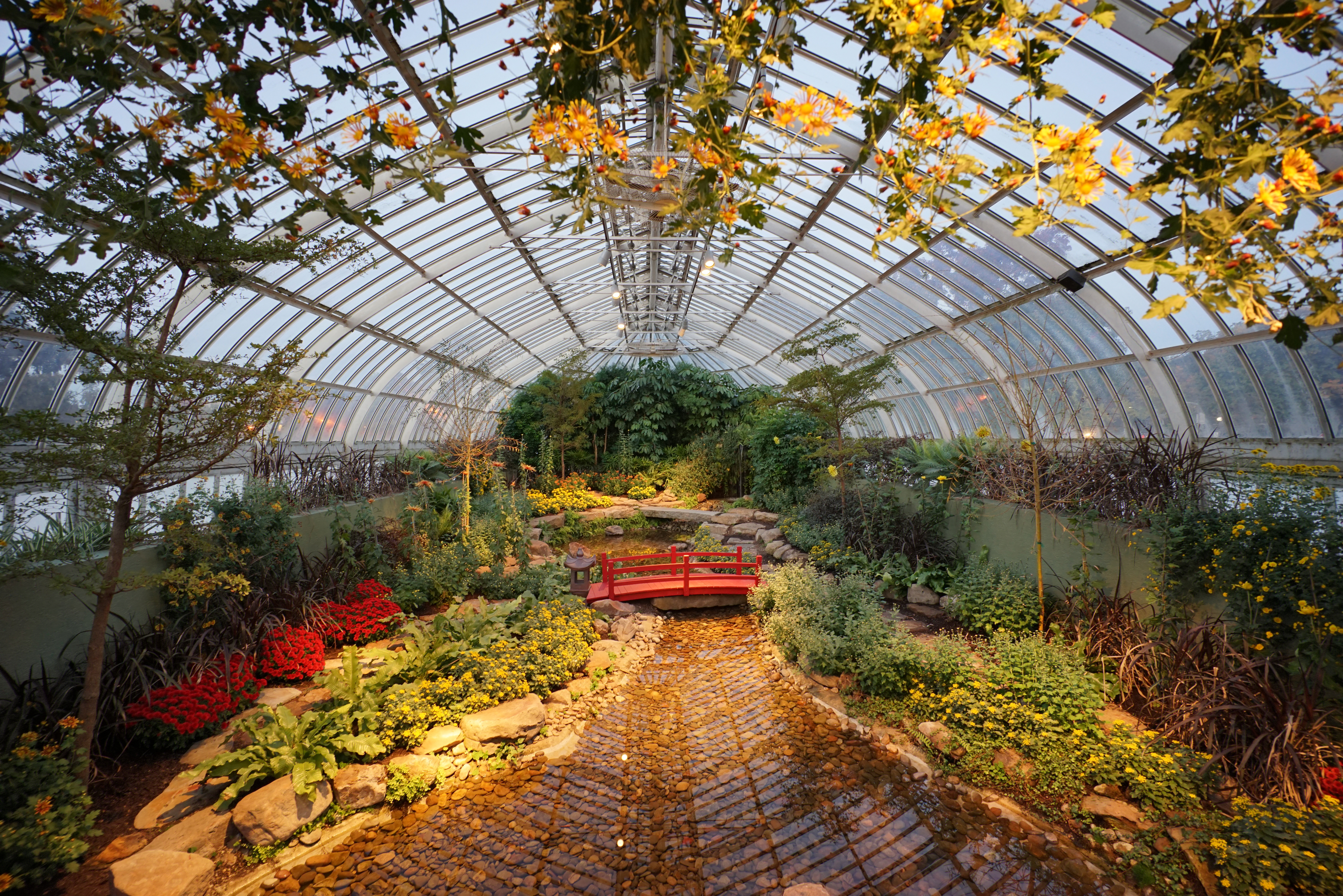 The East Room of the Phipps Conservatory. The Phipps Conservatory and Botanical Gardens is a complex of buildings and grounds set in Schenley Park, Pittsburgh, Pennsylvania. Founded in 1893, the gardens serve to educate and entertain the people of Pittsburgh with formal gardens.